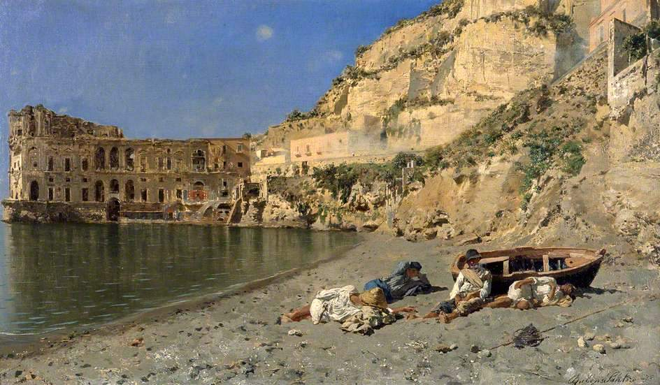 A Siesta in Sunshine, Manchester Art Gallery 1918.405